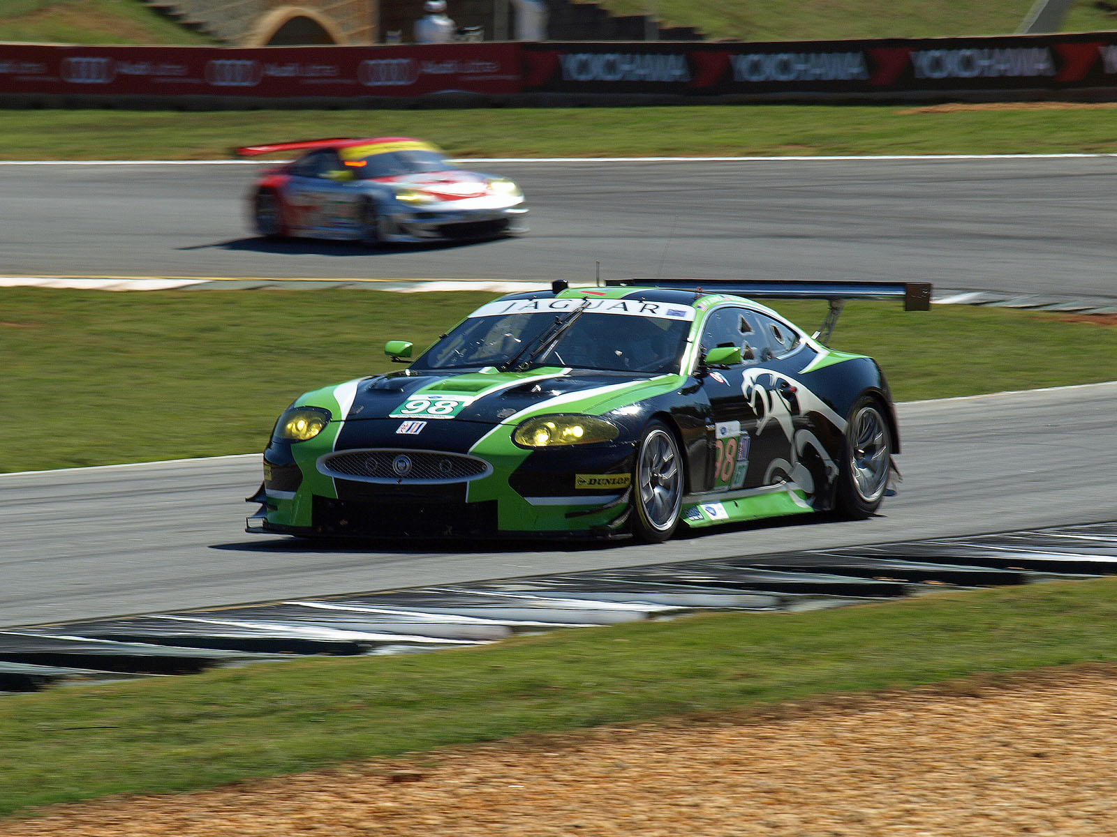 The Rocketsports Racing Jaguar XKR GT in qualifying for the 2011 Petit Le Mans at Road Atlanta.